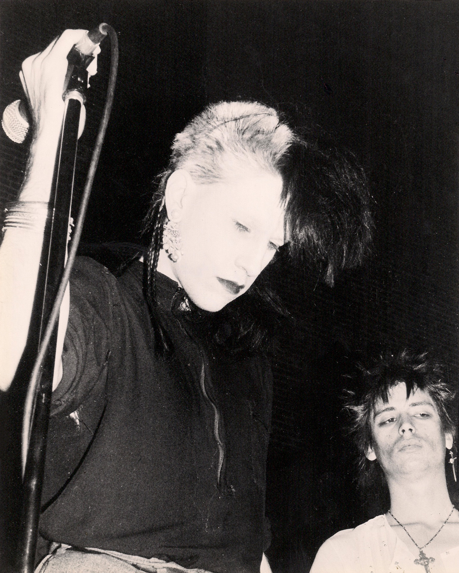 Christian Death 12/3/1982 at the Cove, Hermosa Beach, CA. Rozz Williams (vocals) & Johnnie Sage (guitar) pictured.